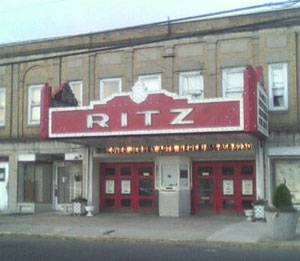 I took this picture myself with a Sanyo phonecam. RasputinAXP talk * contribs 13:10, 5 October 2005 (UTC)